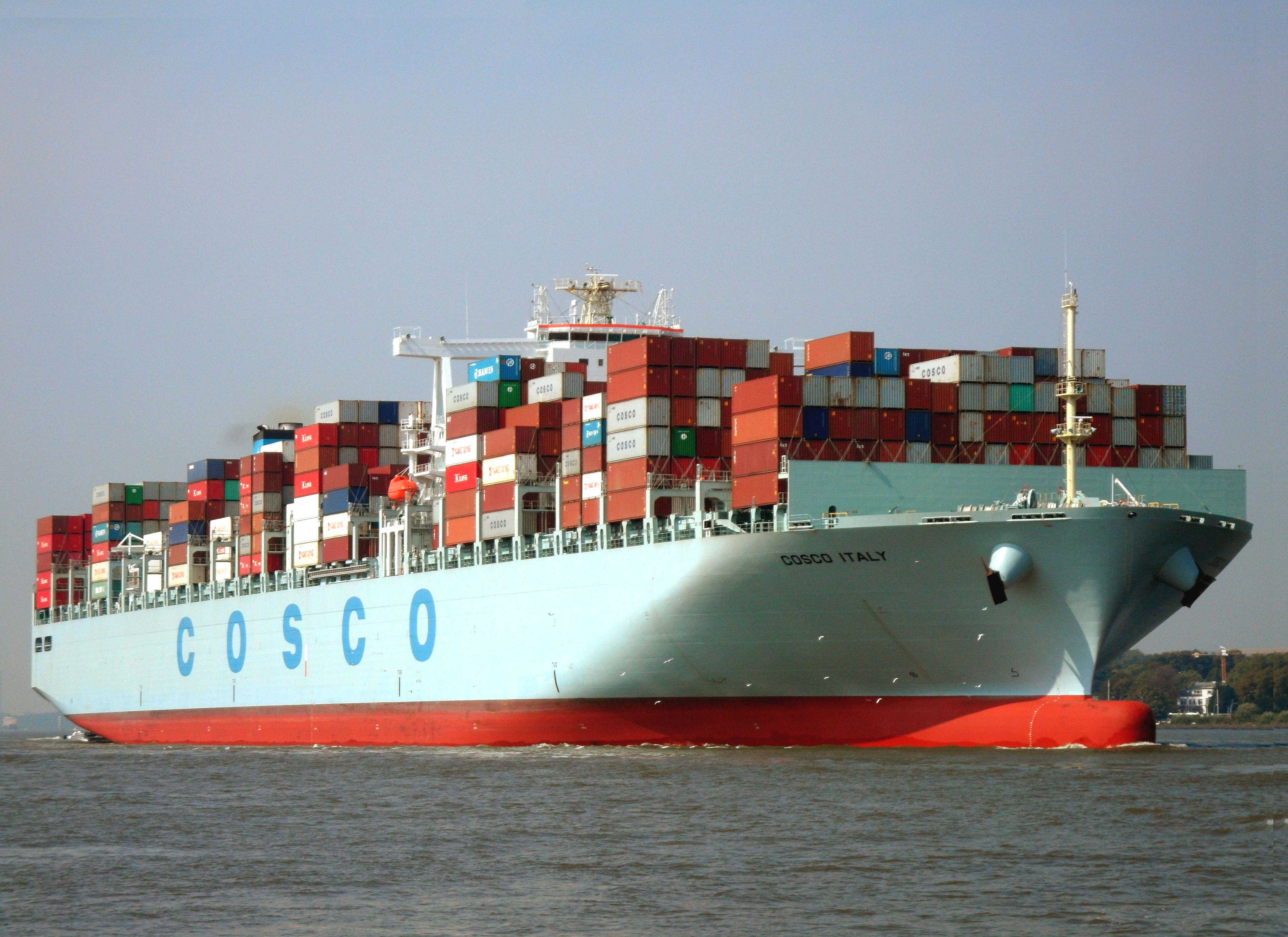 Container ship Cosco Italy on the river Elbe with destination port Hamburg 2014